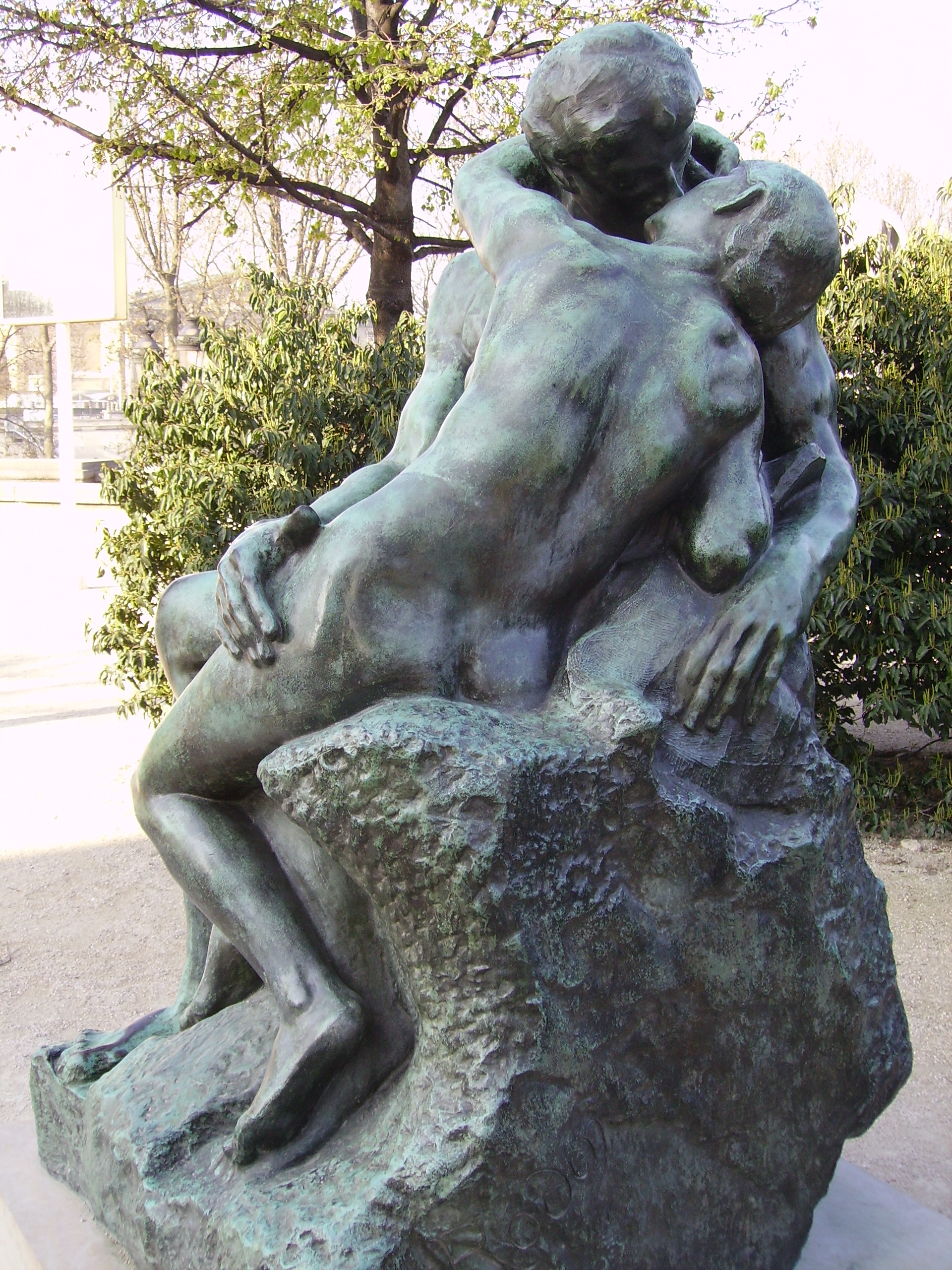 The Kiss by Auguste Rodin near Orangerie museum, Paris